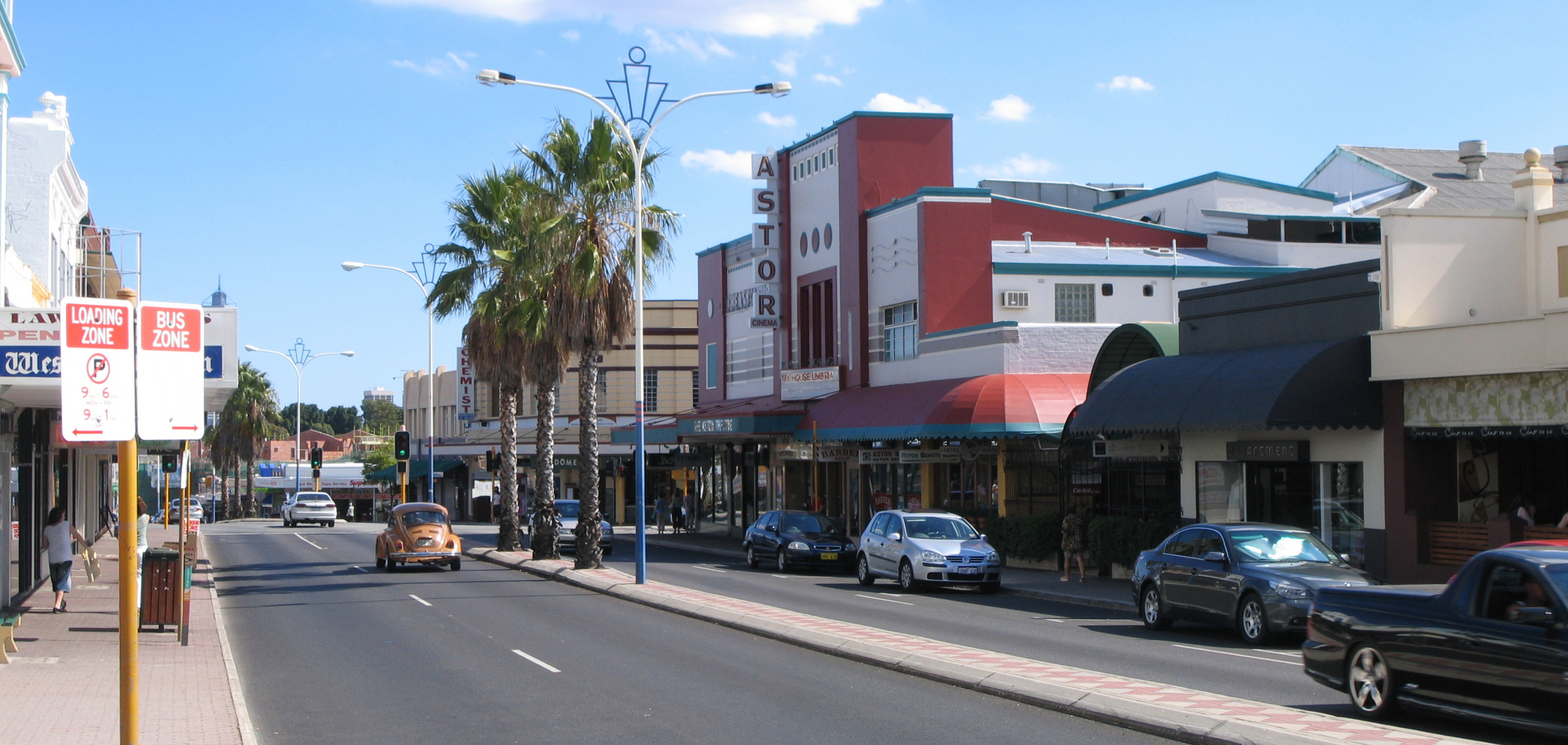 The Astor Theatre, corner of Beaufort St and Walcott St, Mount Lawley, Western Australia.